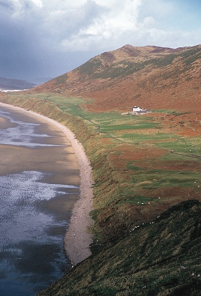 The Gower Peninsula has several examples of raised beaches. However, this raised beach is in fact a Solifluction Terrace, formed due to the slumpling of material down the slope of Rhosilli Downs, into which the sea has cut, and not a raised beach at all. The raised beaches of South Gower are also known as Patella beach after the fossils represented with in their makeup. Original caption Although this raised beach at Rhossili (Wales) is now used for farmland, it provides evidence of a glacioeustatic rise in the land of this area.